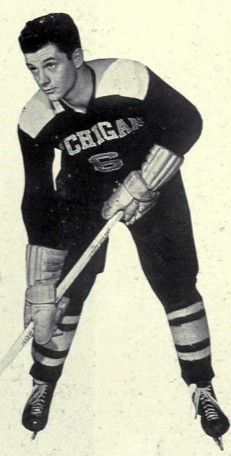 Photograph of Neil Celley, leading scorer on the NCAA champion 1950–51 Michigan Wolverines men's ice hockey team This work is in the public domain because it was published in the United States between 1923 and 1963 and although there may or may not have been a copyright notice, the copyright was not renewed. Unless its author has been dead for the required period, it is copyrighted in the countries or areas that do not apply the rule of the shorter term for US works, such as Canada (50 pma), Mainland China (50 pma, not Hong Kong or Macao), Germany (70 pma), Mexico (100 pma), Switzerland (70 pma), and other countries with individual treaties. See Commons:Hirtle chart for further explanation. This work is in the public domain in the United States because it was published in the United States between 1923 and 1977 without a copyright notice. See Commons:Hirtle chart for further explanation. Note that it may still be copyrighted in jurisdictions that do not apply the rule of the shorter term for US works (depending on the date of the author's death), such as Canada (50 p.m.a.), Mainland China (50 p.m.a., not Hong Kong or Macao), Germany (70 p.m.a.), Mexico (100 p.m.a.), Switzerland (70 p.m.a.), and other countries with individual treaties.